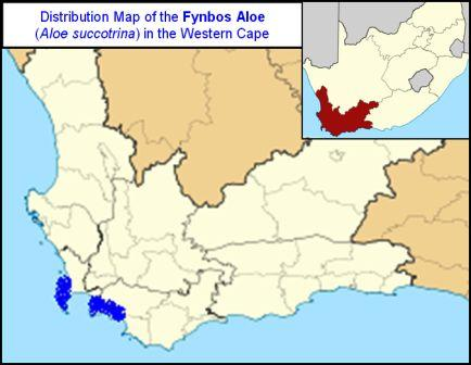 Distribution Map of the Fynbos Aloe (Aloe succotrina ). Limited range on the Cape Peninsula Mountains, and between the Kogelberg Mountains and Hermanus,, in Fynbos habitats. Located in southwestern South Africa. Map created with information from common knowledge and public Red Data list of South African plants.